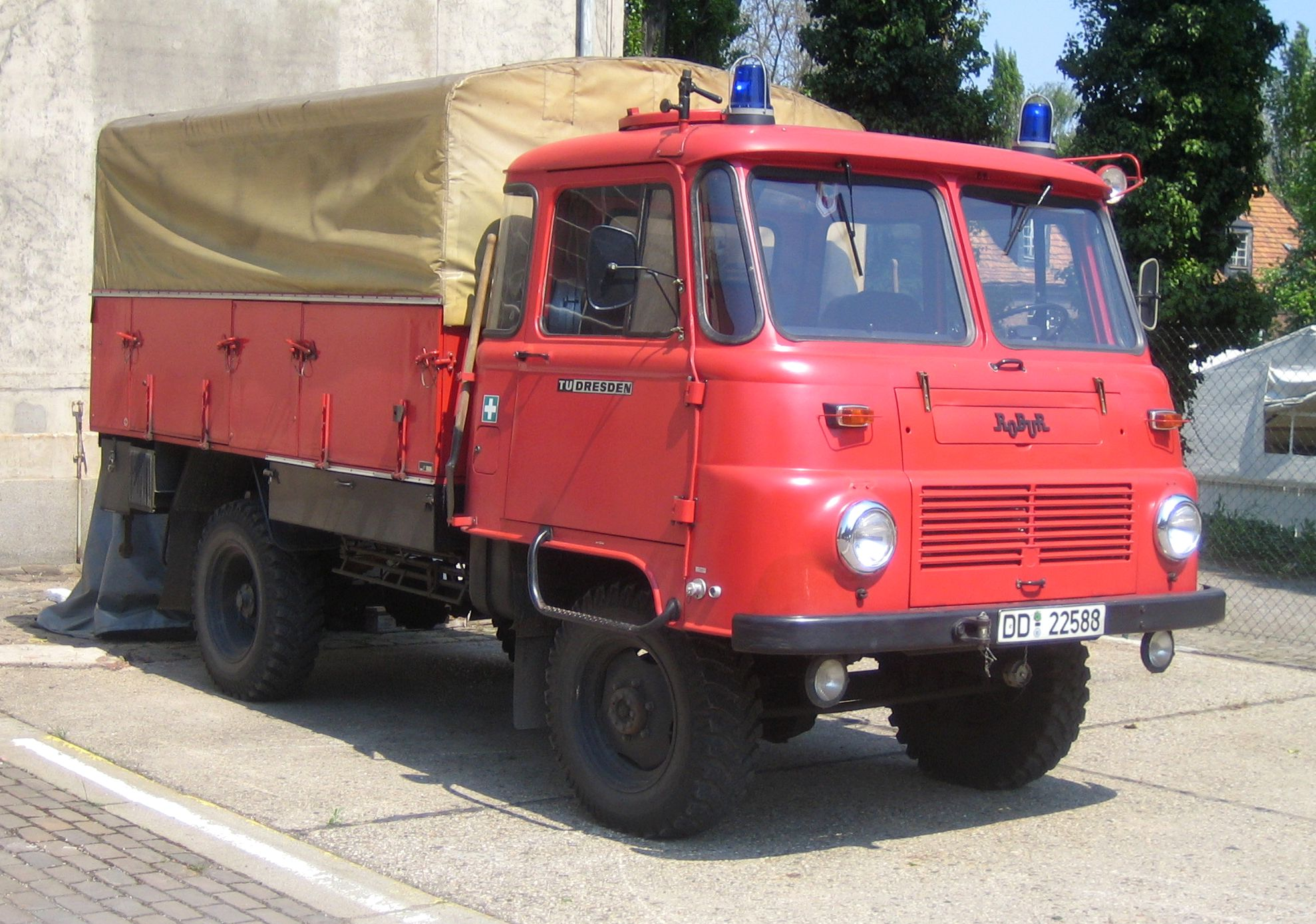 Robur truck (east germany) Fire brigade of the Dresden University of Technology